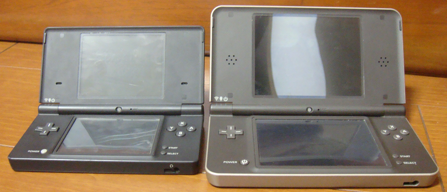 Comparison of Nintendo DSi and DSi LL